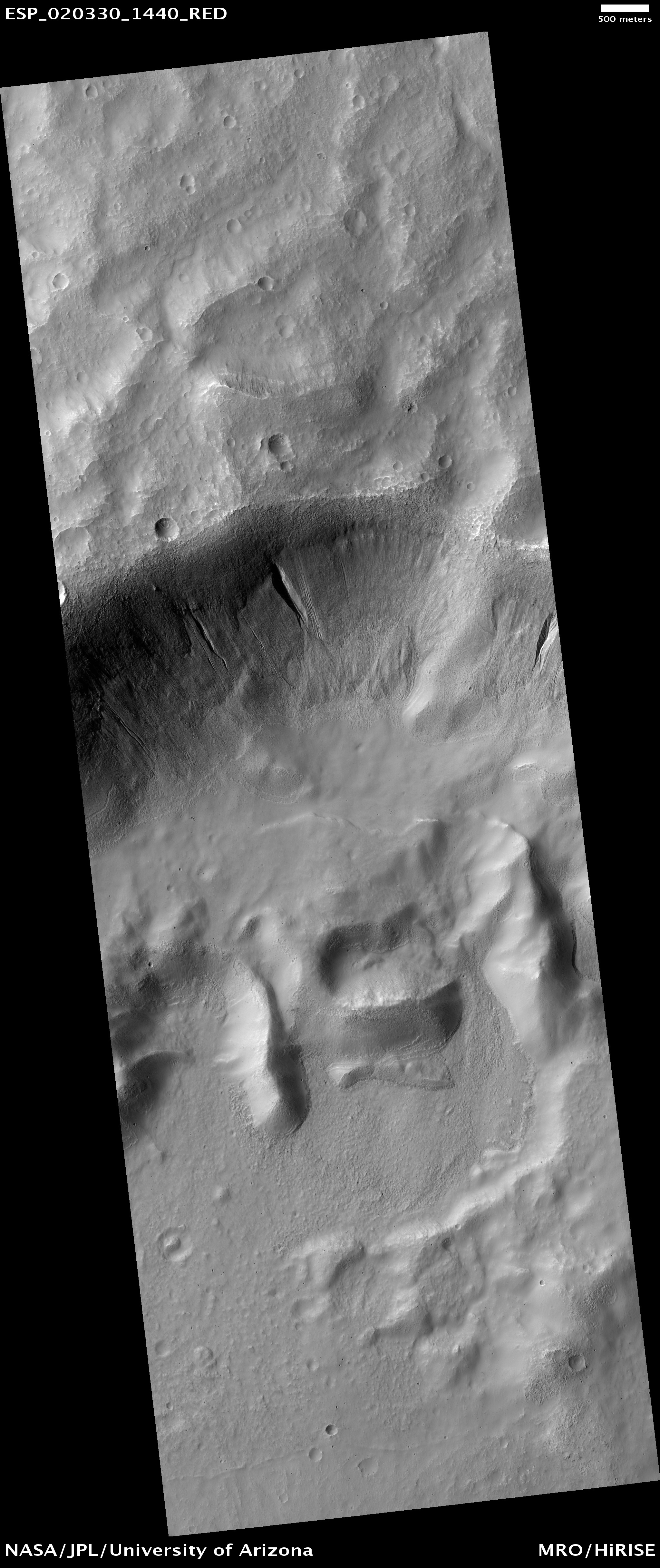 Gullies and layers in mantle, as seen by hirise, under HiWish program. Location is 35.8 S and 165.3 E. Scale bar is 500 meters.